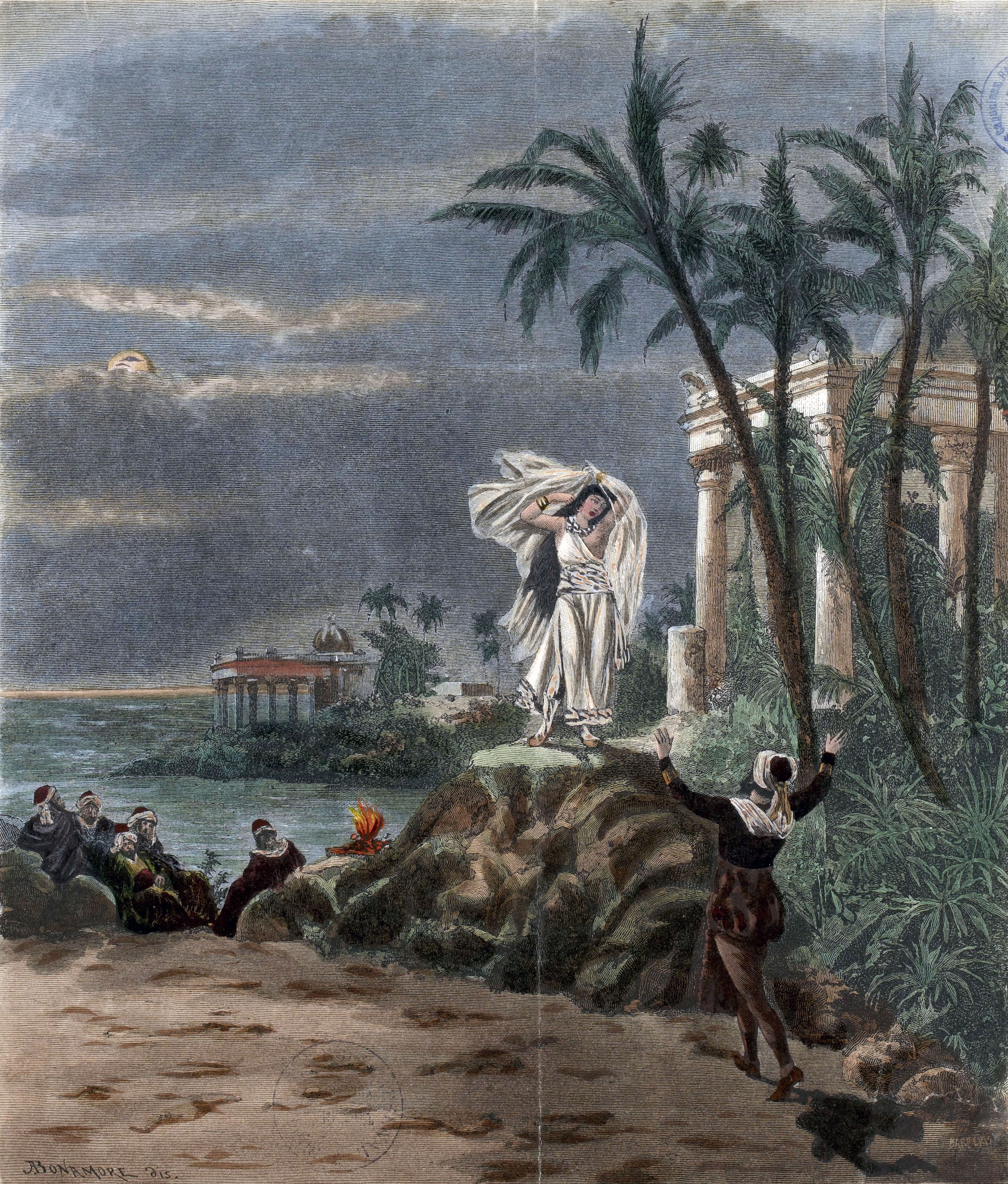 Illustration for the final scene of act 1 (duet of Leïla and Nadir) in the opera Les pêcheurs de perles by Georges Bizet, as produced at La Scala on 20 March 1886, the Milan premiere